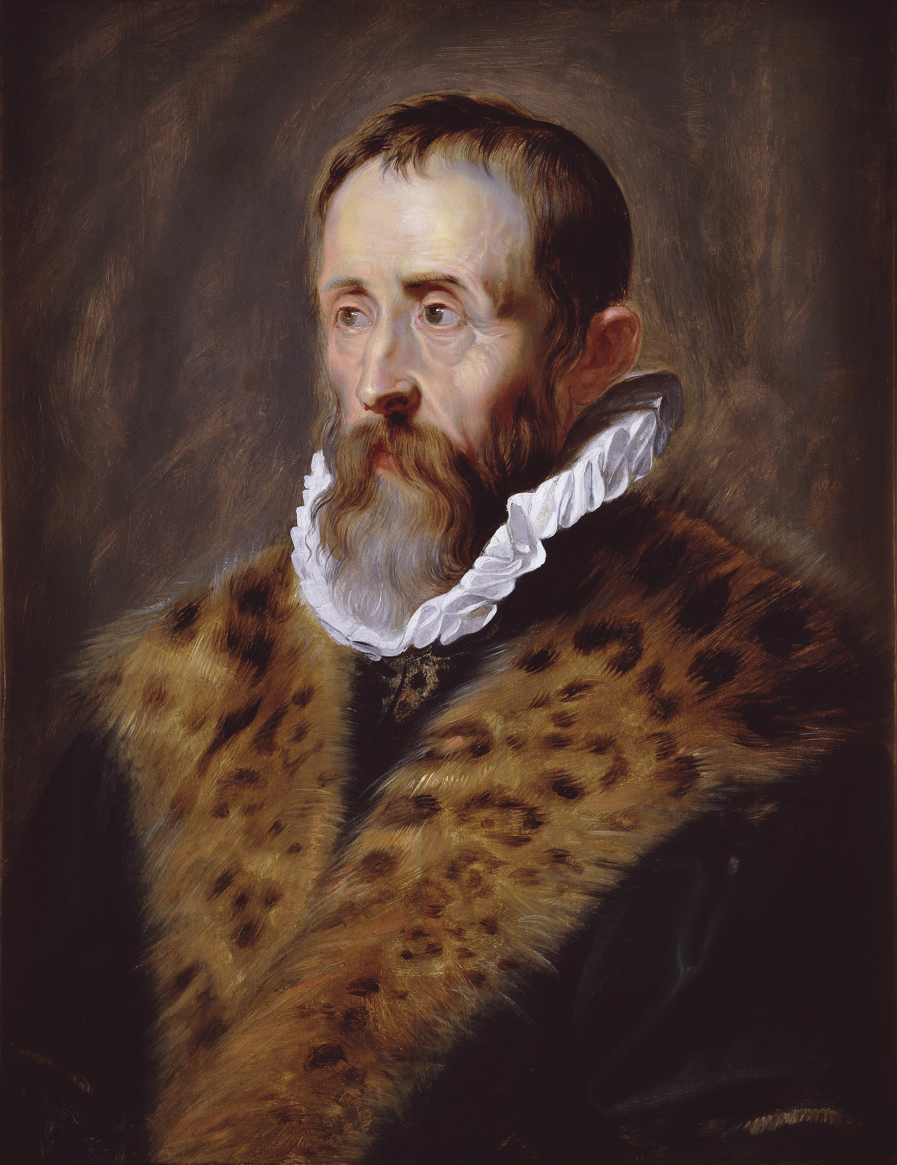 after Self portrait with Philip Rubens (1574-1611), Justus Lipsius (1547-1606) and Johannes Woverius (1576-1635) after a (lost) Portrait of Justus Lipsius by Abraham Janssens (1567-1632)